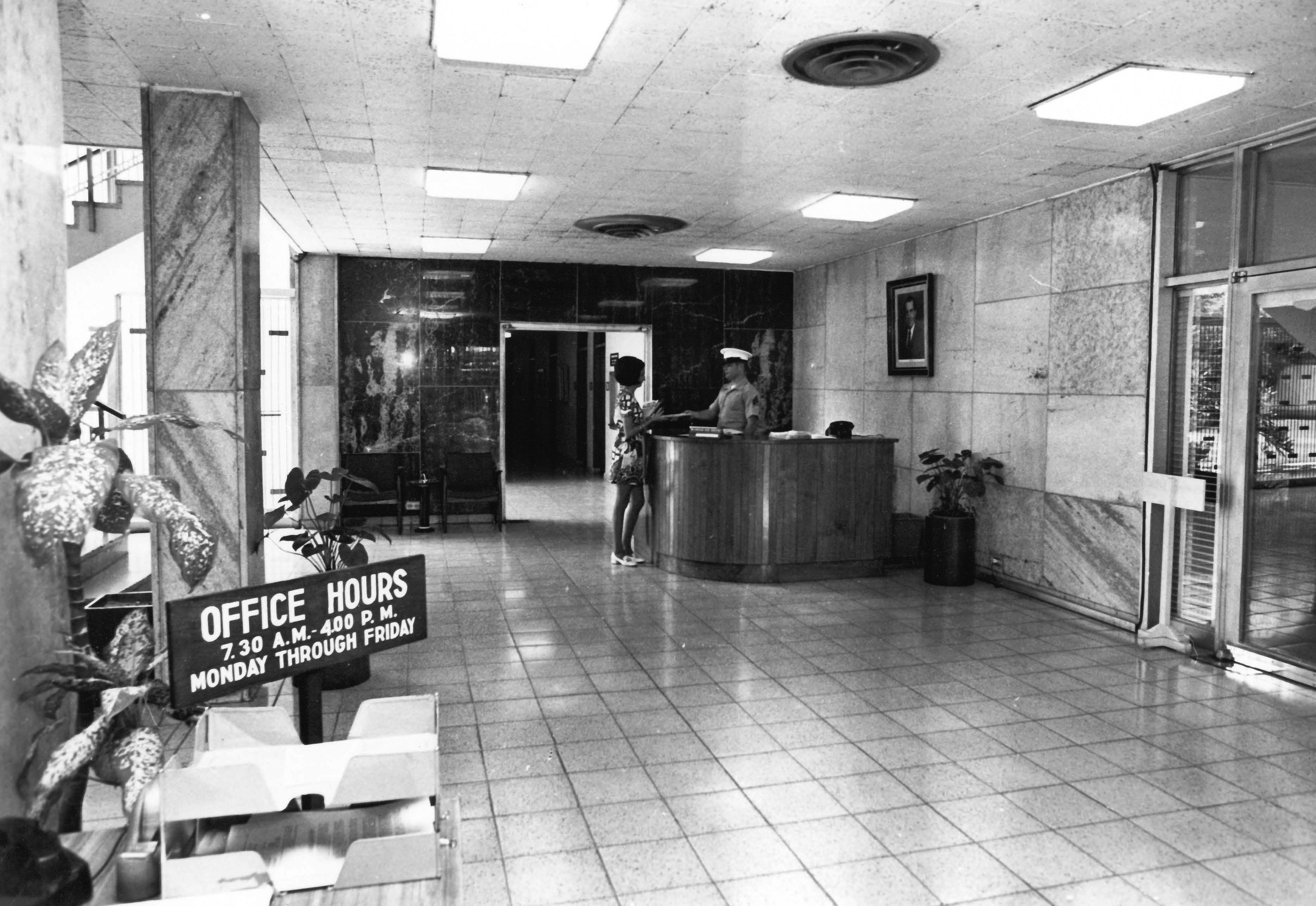 Marine Security Guard Post 1 at the U.S. Embassy in Jakarta, Indonesia, circa 1970. The glass, openness, and easy access made U.S. embassies in the 1960s difficult to protect. Initially, upon the emergence of terrorist attacks by individuals and small groups, SY instituted several changes including a four-stage emergency plan, screening of visitors, access controls, more Marine Security Guards, and extra local guards to increase security. Source: Department of State, Office of the Historian Files. For more information visit